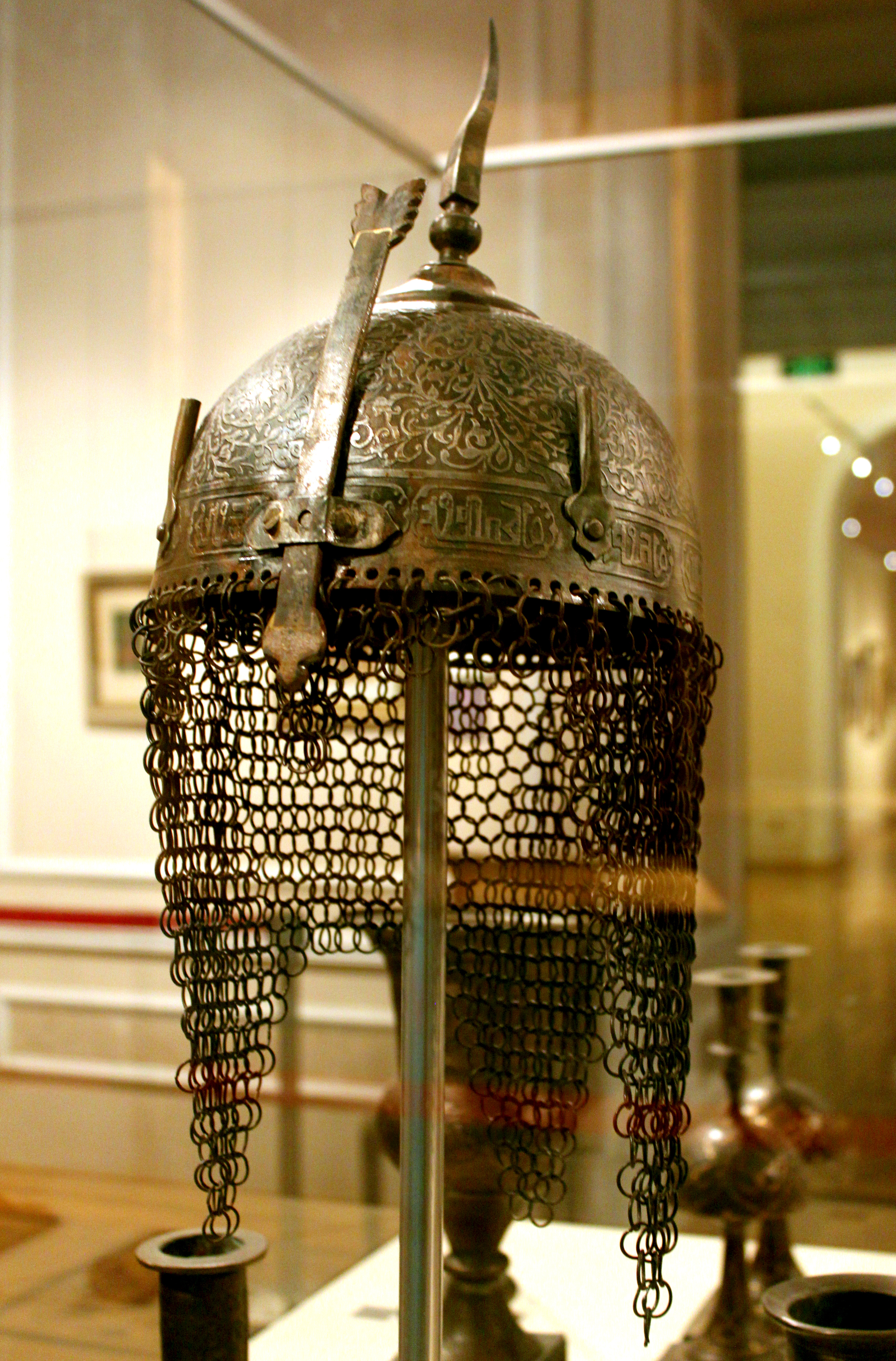 Medieval azerbaijani helmet (Shirvanshahs)